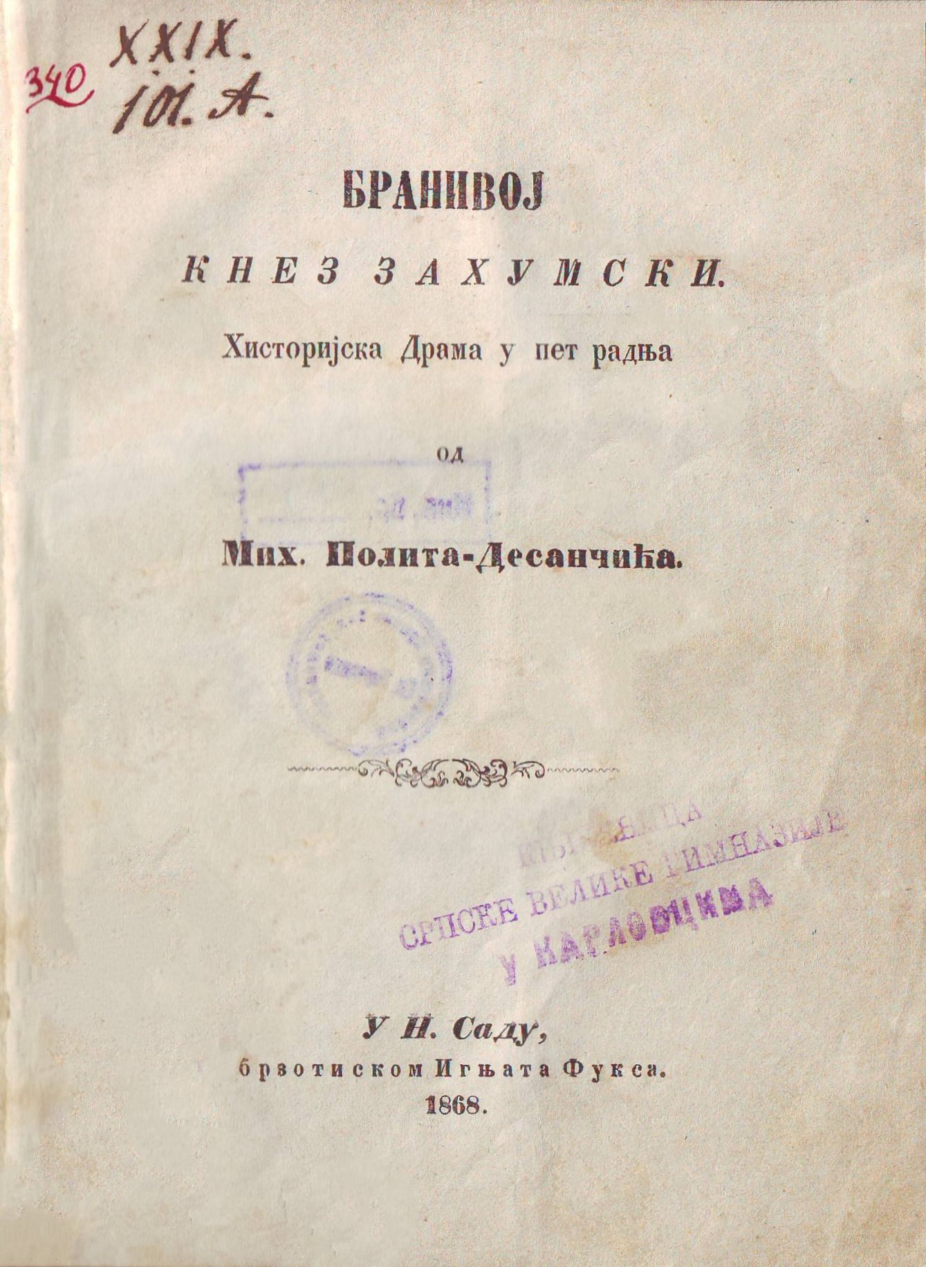 Cover of historical drama Branivoj, knez zahumski (1868) by Mihailo Polit-Desančić. Srpski (latinica): Naslovna strana istorijske drame Branivoj, knez zahumski (1868) Mihaila Polit-Desančića.